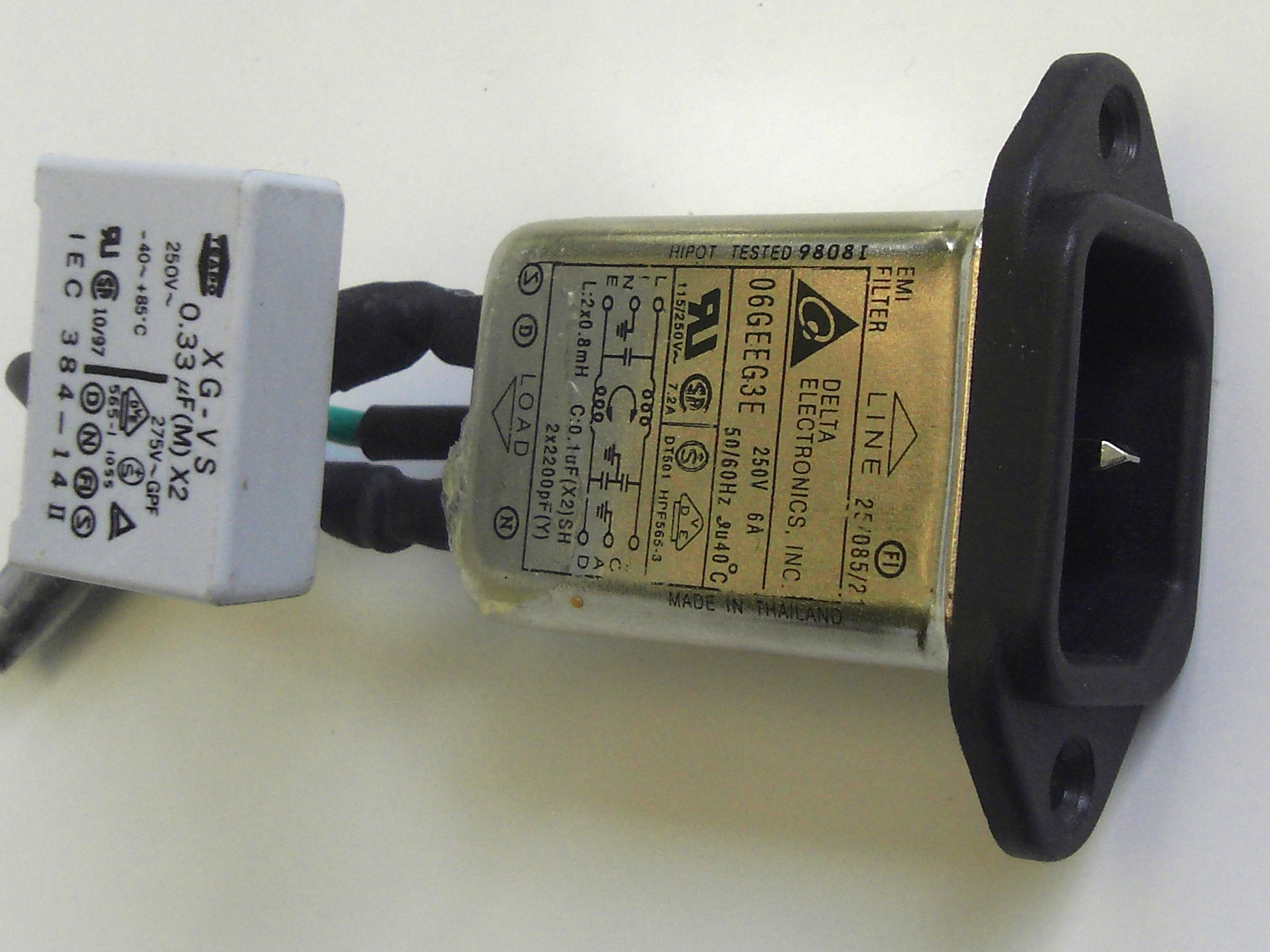 Mains filter, with connector iec, is indispensable to protect against parasites 6 A